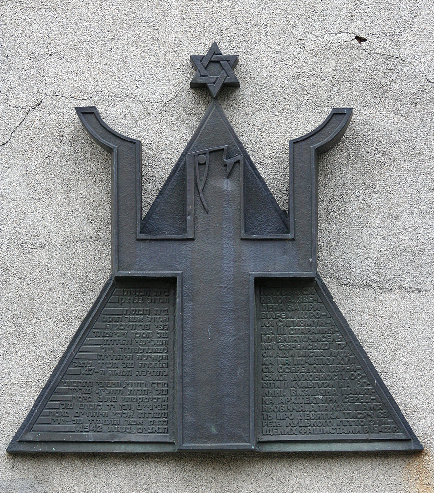 the great synagogue of Lutsk